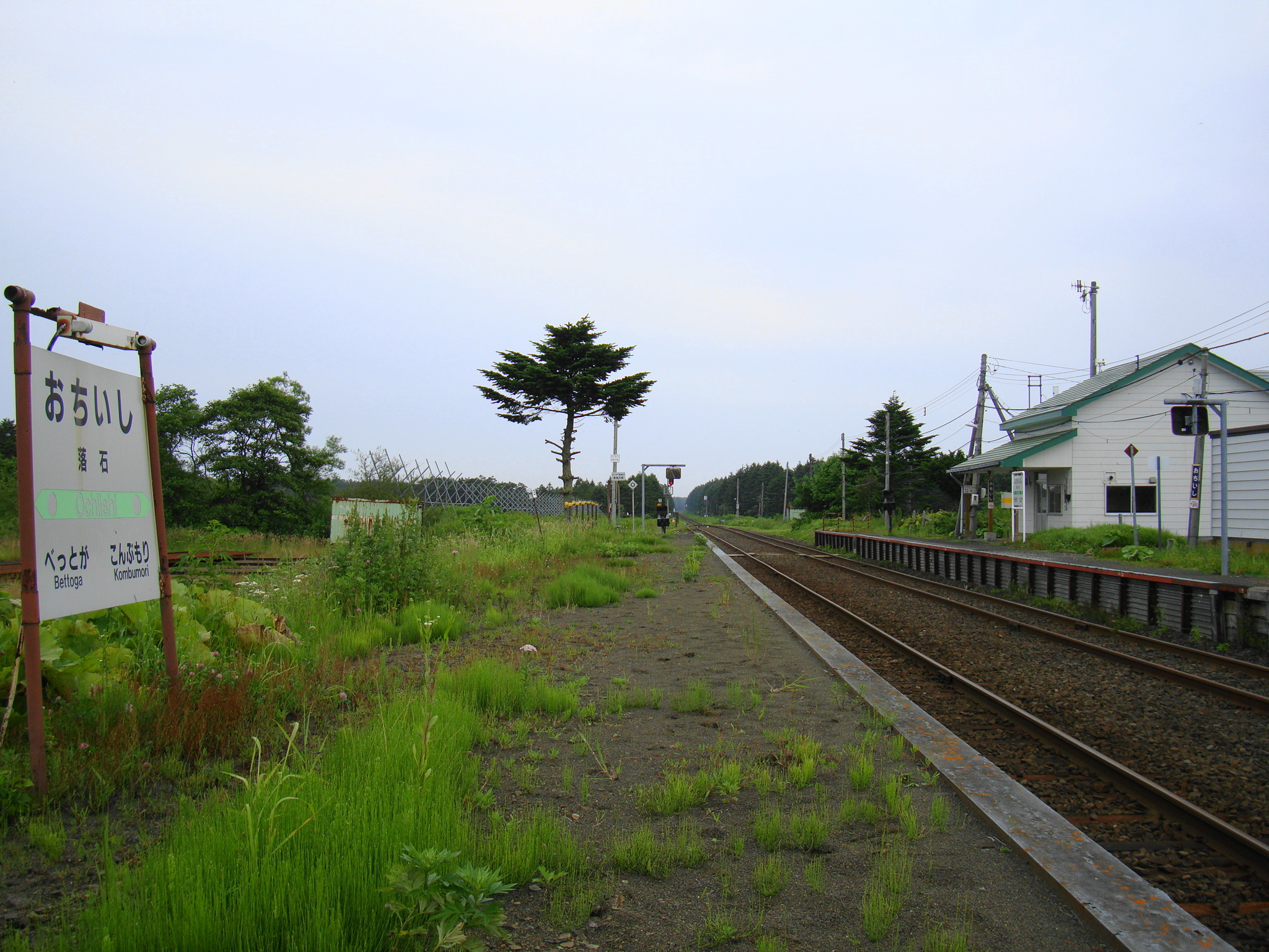 Ochiishi Station